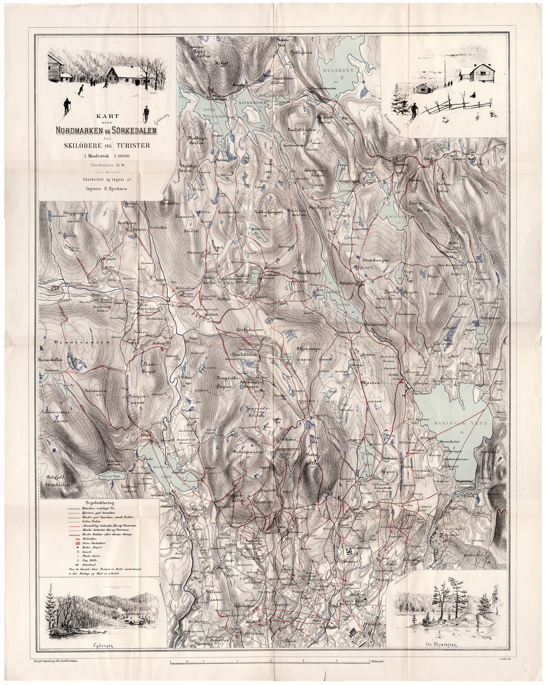 Map for skiers in Nordmarka, the forests north of Oslo. Author Ernst Wilhelm Bjerknes (1865-1955) was a Norwegian engineer and planner. He published this map in 1890, the world's first map for skiing.